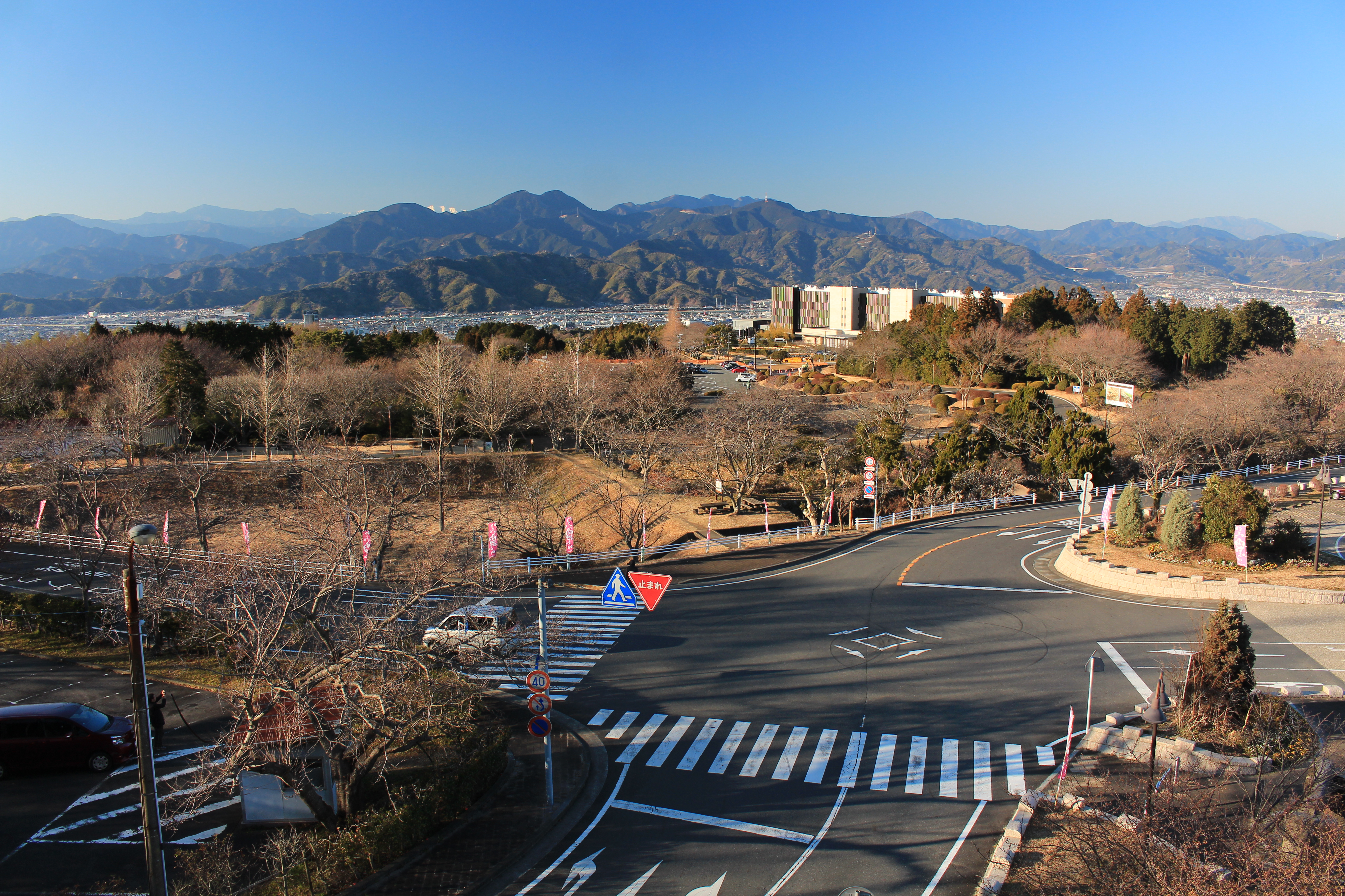 Nippondaira Hotel and Akaishi Mountains seen from Nihondaira, in Shizuoka prefecture, Japan.